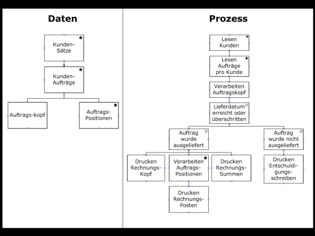 Jackson Diagram First published by Michael A. Jackson in the 1974 book "Principles of Program Designs".